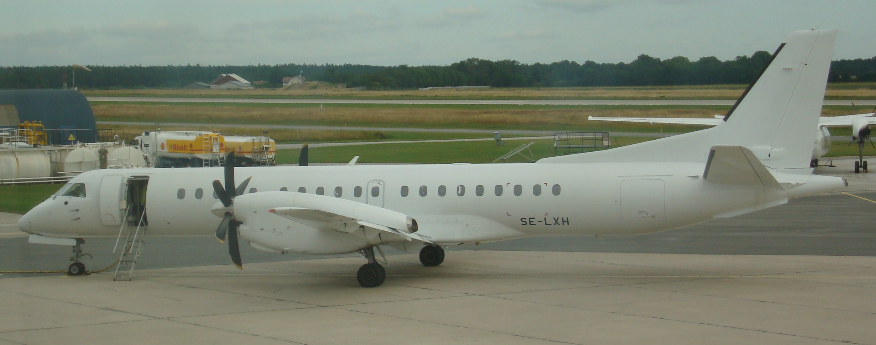 Saab 2000 aircraft (SE-LXH) at Visby Airport